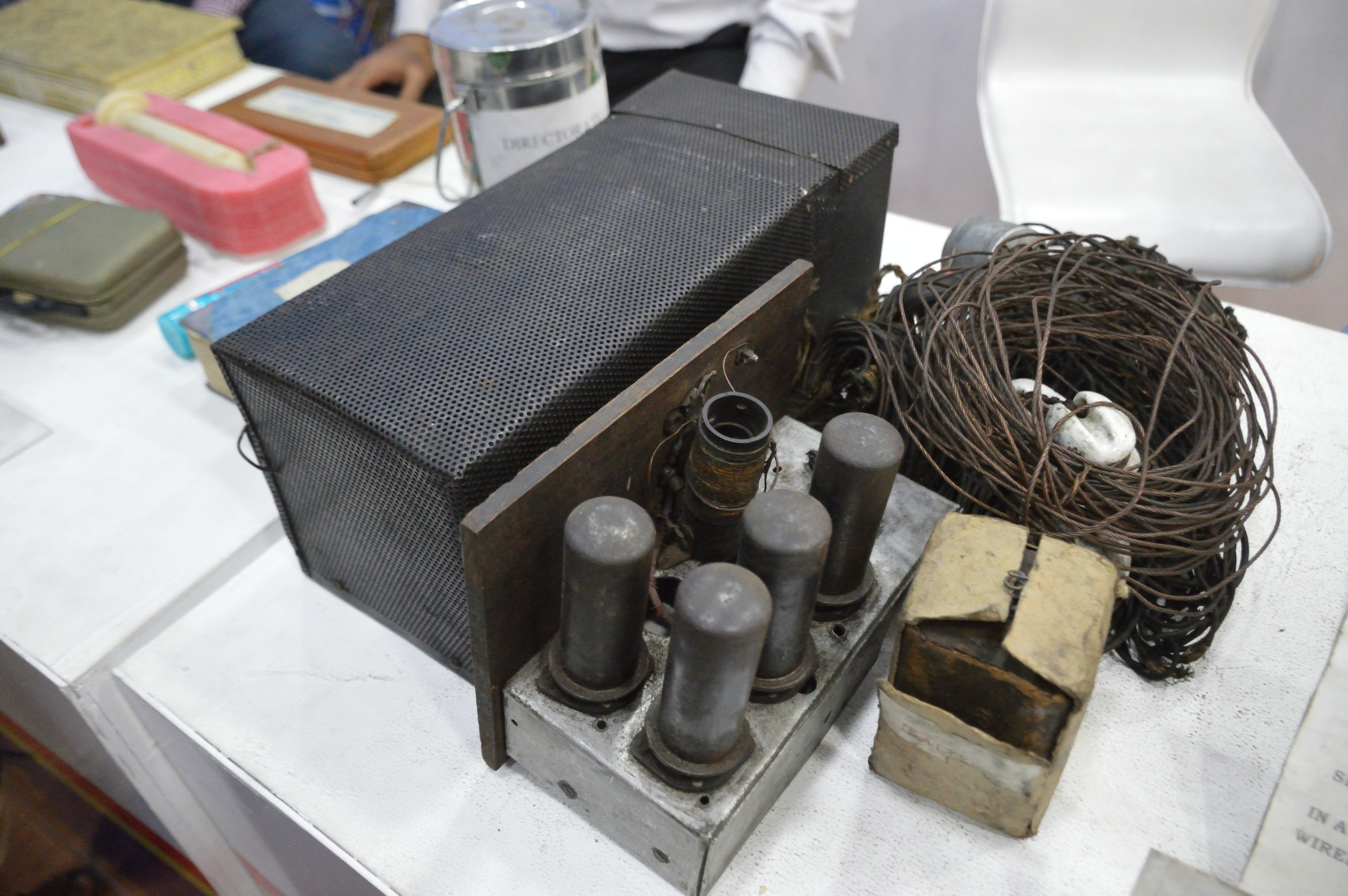 The radio transmitting set with all accessories including wires, insulators, bulbs, plantings etc. sent by Netaji Subhas Chandra Bose to India in a submarine, four members of INA were the carriers. The wireless post was set up in Calcutta with a view to establish radio communication network with Netaji. The transmitter was seized from their possession in 1944.This photograph was taken at the West Bengal Police pavilion, during the 41st International Kolkata Book Fair at Milan Mela Complex that organised by the Publishers & Booksellers Guild, Kolkata.